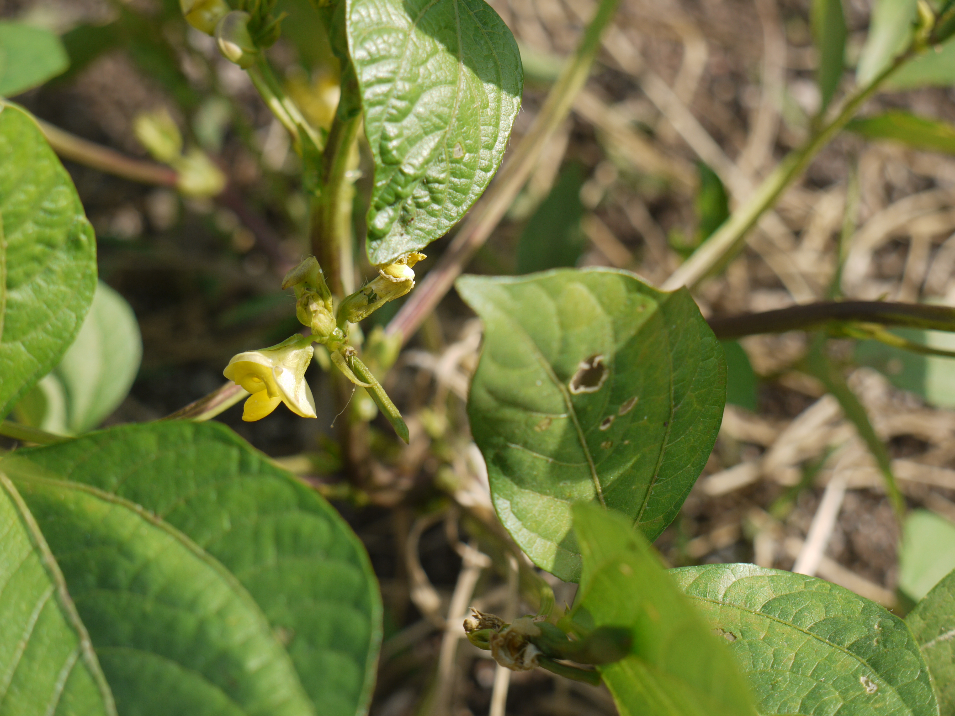 Fabaceae (pea, or legume family) » Vigna mungo var. mungo VIG-nuh -- named for Prof. Dominico Vigna, 17th century Italian botanist MUN-go -- from the Sanskrit name of the plant, मुद्ग (mudga) commonly known as: black gram, black matpe, black mung bean, urd bean • Bengali: মাষকলাই mashakalai • Gujarati: અડદ adad • Hindi: उरद urad, उर्द urd • Kannada: ಉದ್ದು uddu • Konkani: उर्द urd • Malayalam: ulunnu • Manipuri: shagol-hawai • Marathi: माष masha, उडीद udid • Pali: मास maasa • Sanskrit: माषः mashah • Tamil: உழுந்து uluntu • Telugu: మాషము masamu, మినుము minumu, ఉద్దులు uddulu • Urdu: آرد مونگ arad mung Distribution: widely cultivated in tropics; probable origin India References: Wikipedia • NPGS / GRIN • IMPGC • Dave's Garden • ENVIS - FRLHT • DDSA